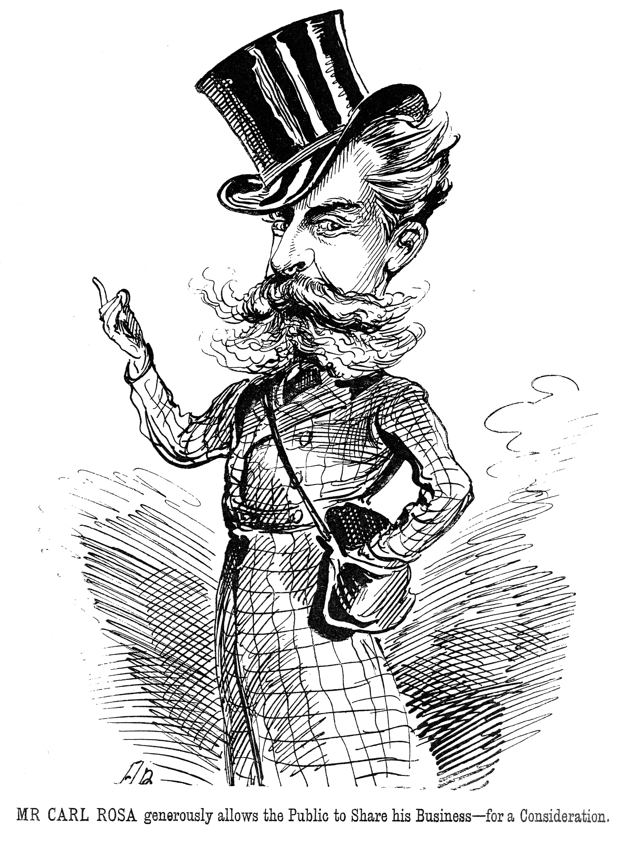 Carl Rosa, founder of the Carl Rosa Opera Company.